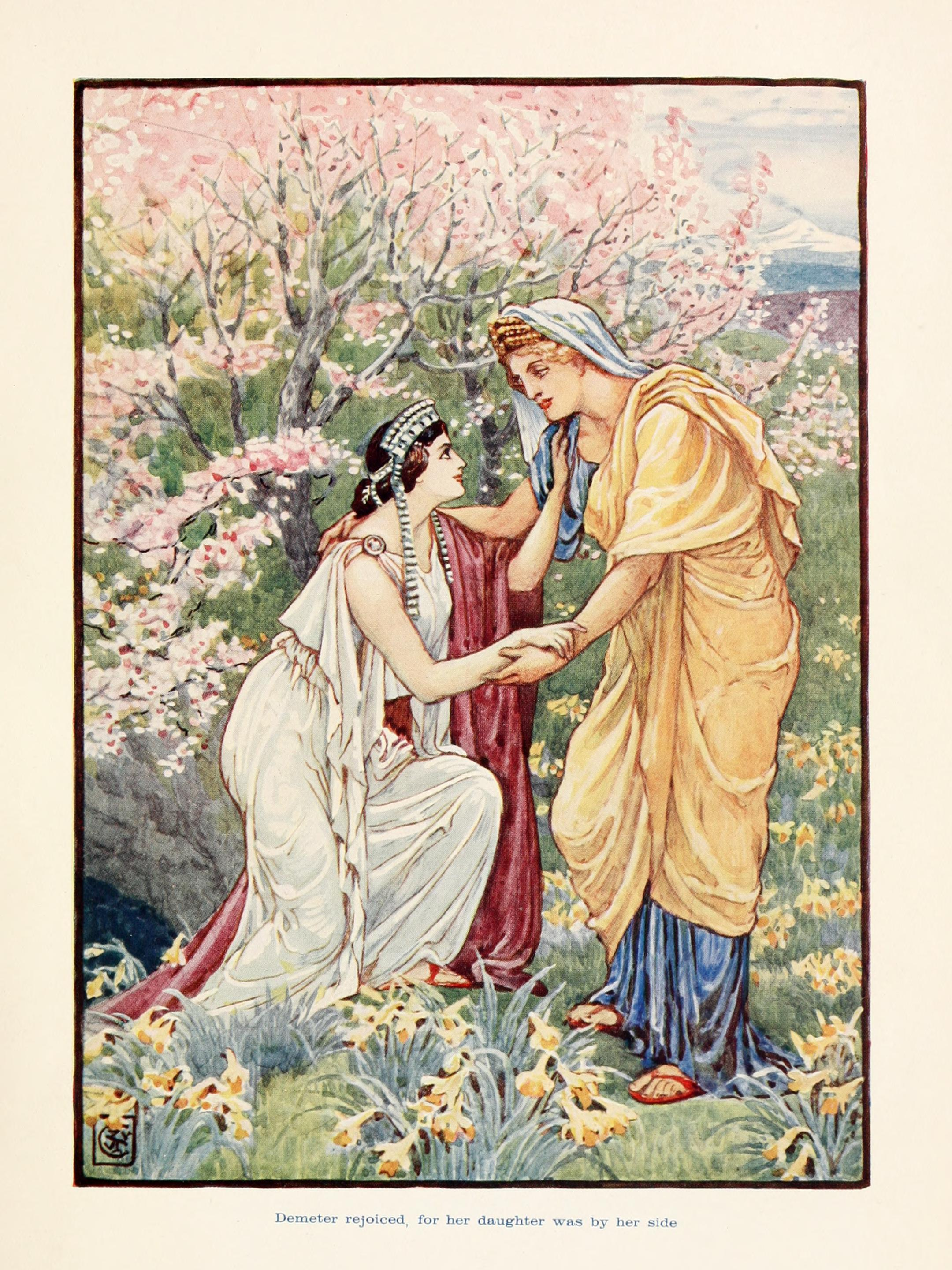 These stories from the history of ancient Greece begin with myths and legends of gods and heroes and end with the conquests of Alexander the Great. The book is accessible and well organized, but it is considerably more detailed than some other introductory texts. It covers Greek history from the age of Mythology to the rise of Alexander, but because of its length we do not recommend it for 5th grade or younger. It is an excellent reference, thoroughly engaging, and a good candidate for a somewhat older student's first foray into Greek history.